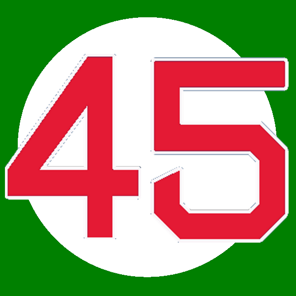 Red Sox retired numbers as hung on the right-field facade during the 2016 season in Fenway Park